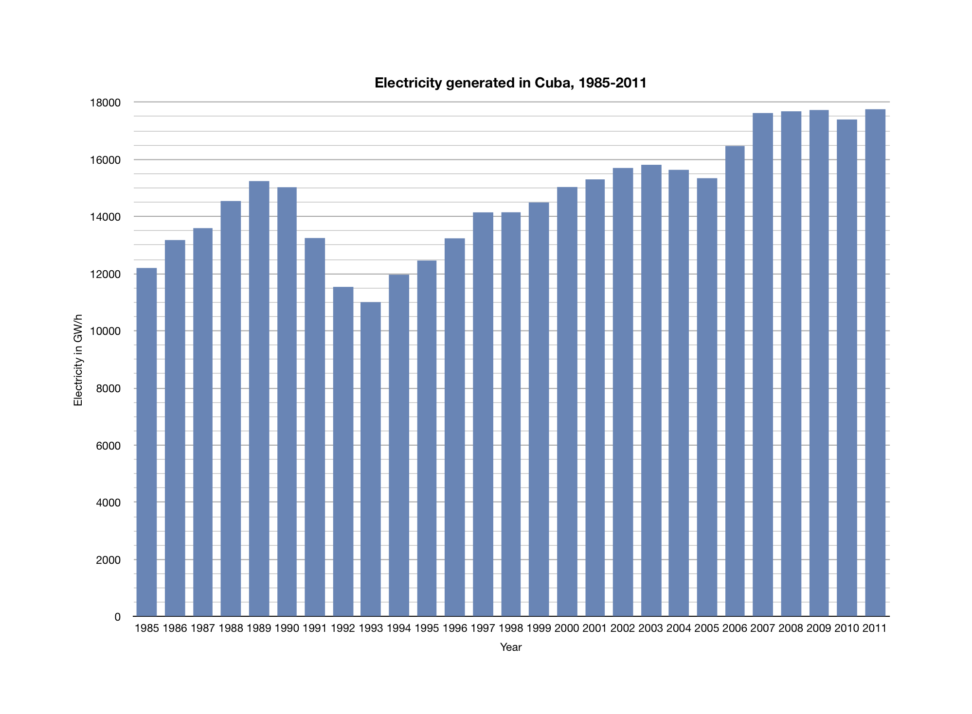 Electricity generated in Cuba in GW/h, 1985-2010. Source: Anuario Estadístico de Cuba 2007. SERIES ESTADíSTICAS, ONE 10.5, 2010 and ONE publication, 2011.